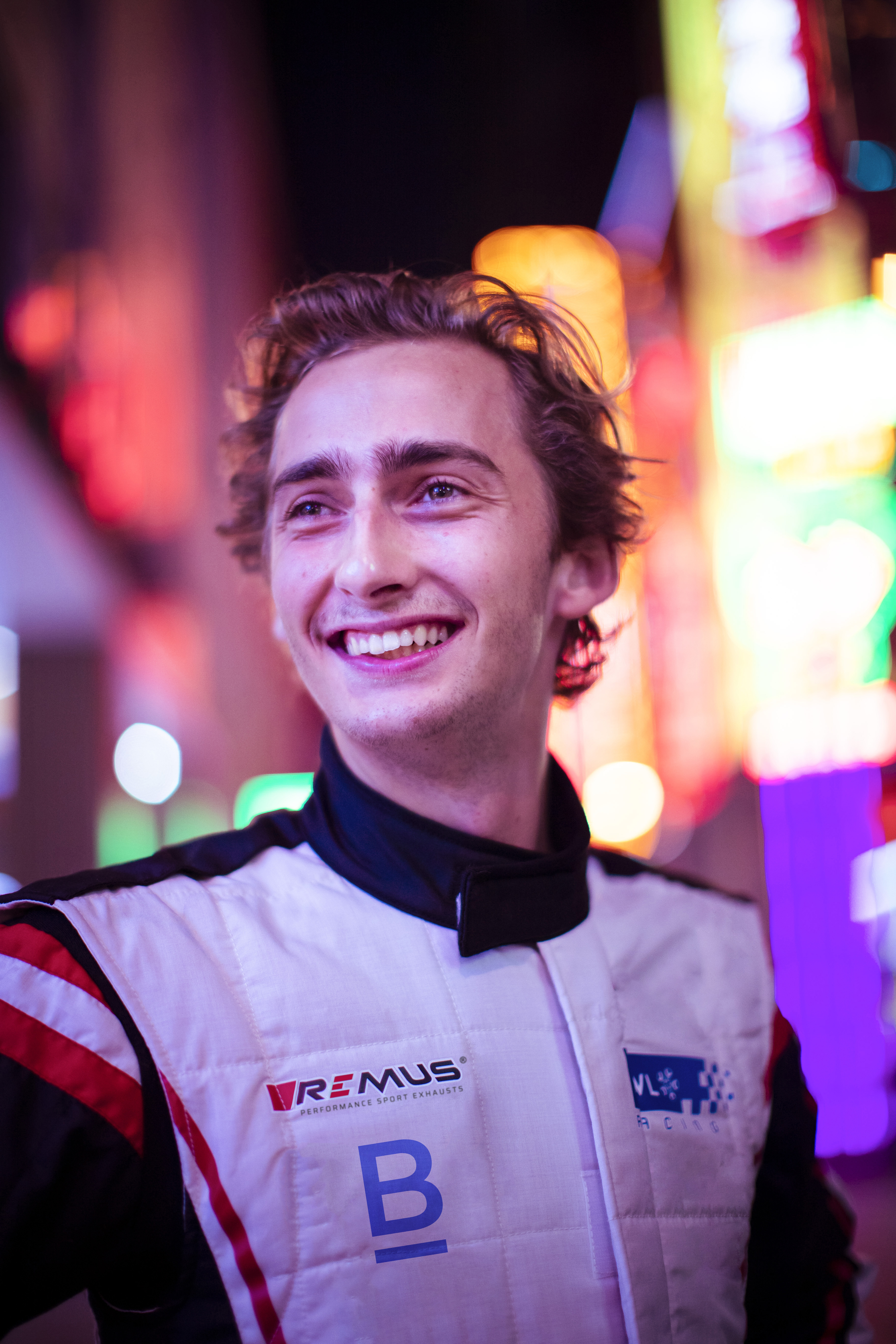 Ferdinand Habsburg, DTM driver for Audi Sport WRT